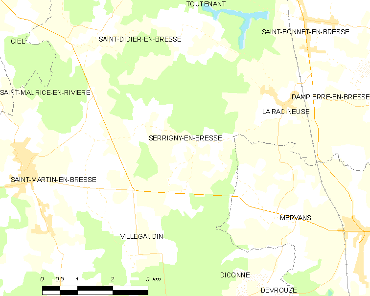 Map of French municipality